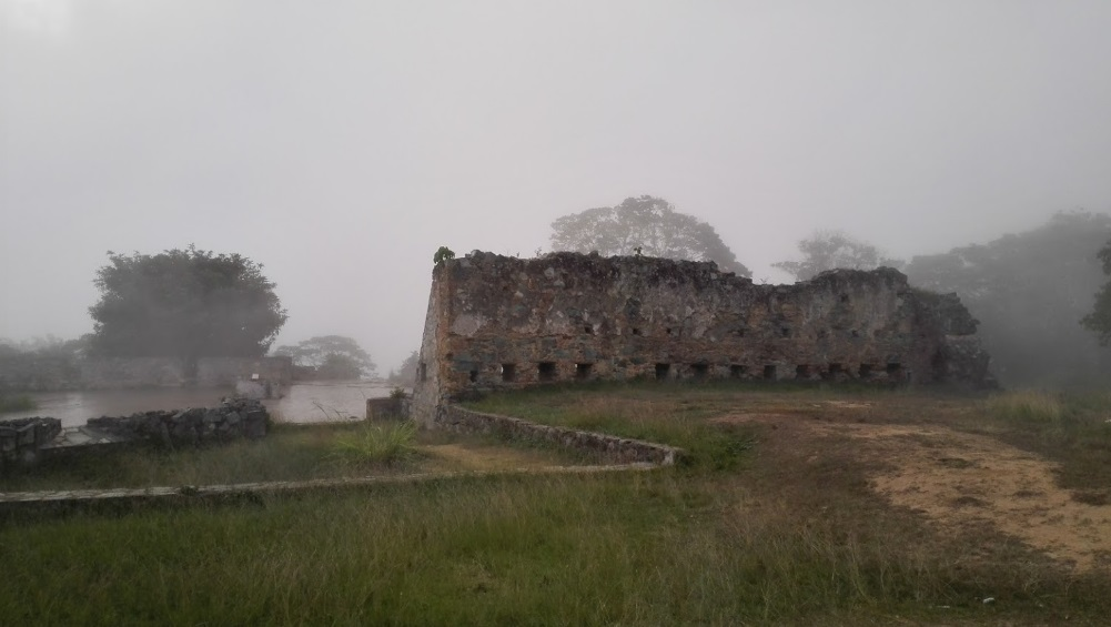 (El Fortin) Castillo de San Joaquin, Castle El Avila National park 3